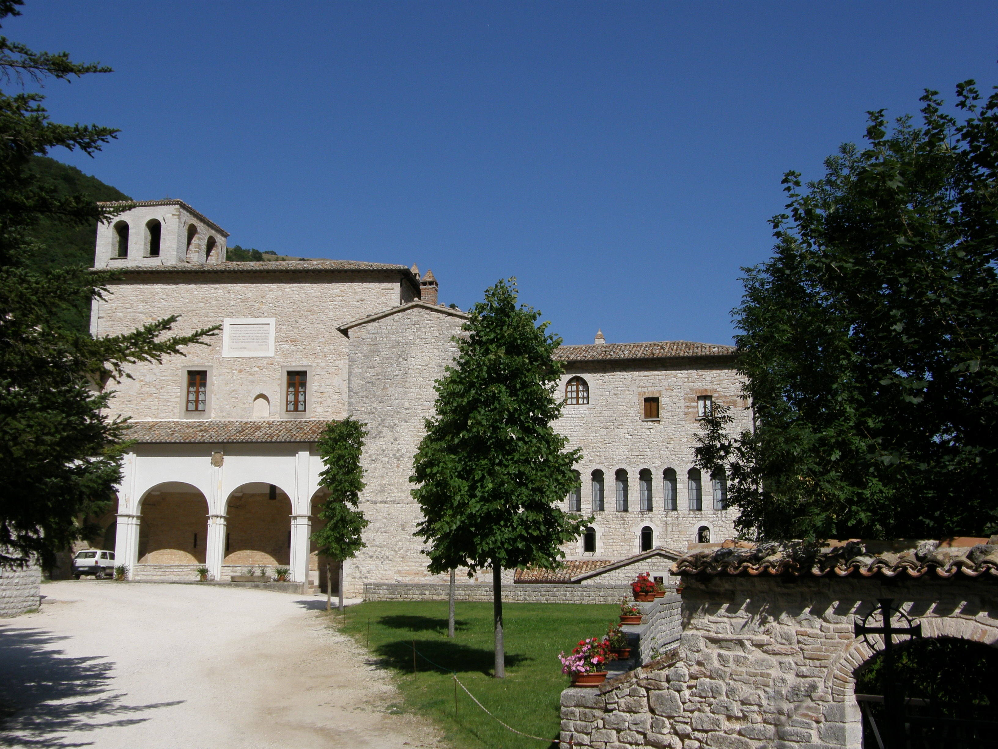 Serra Sant'Abbondio, Italy - Monastero di Fonte Avellana